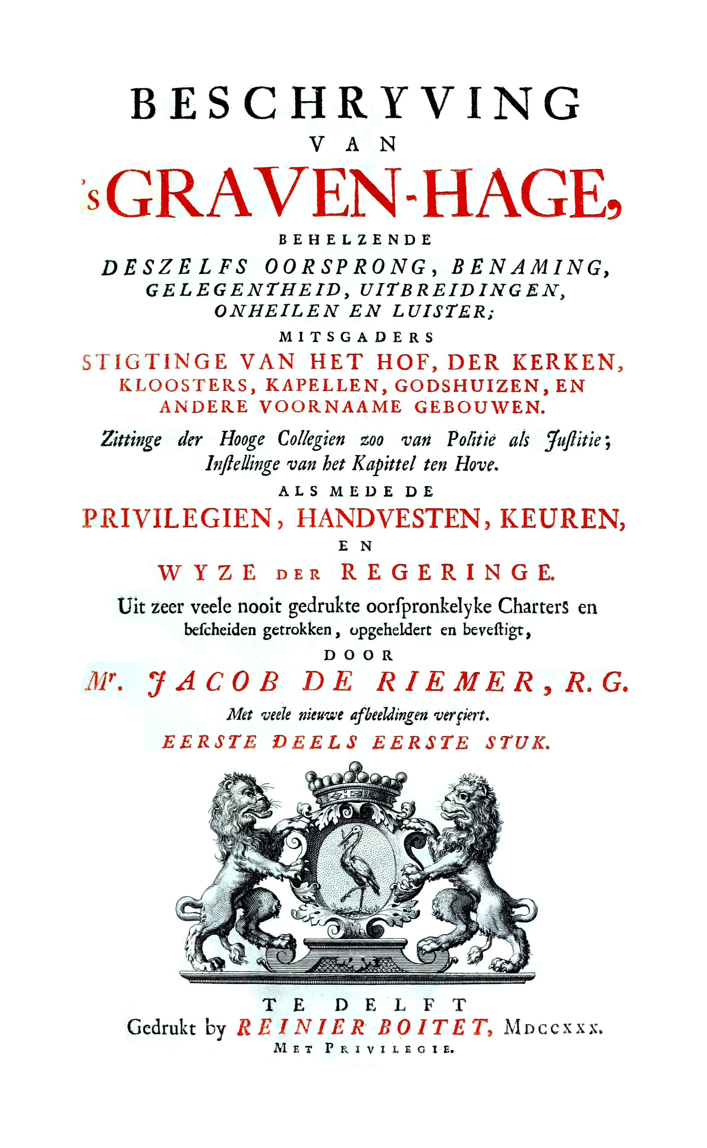 Title page of the book of 'Beschryving van 's Graven-hage', by Jacob de Riemer.